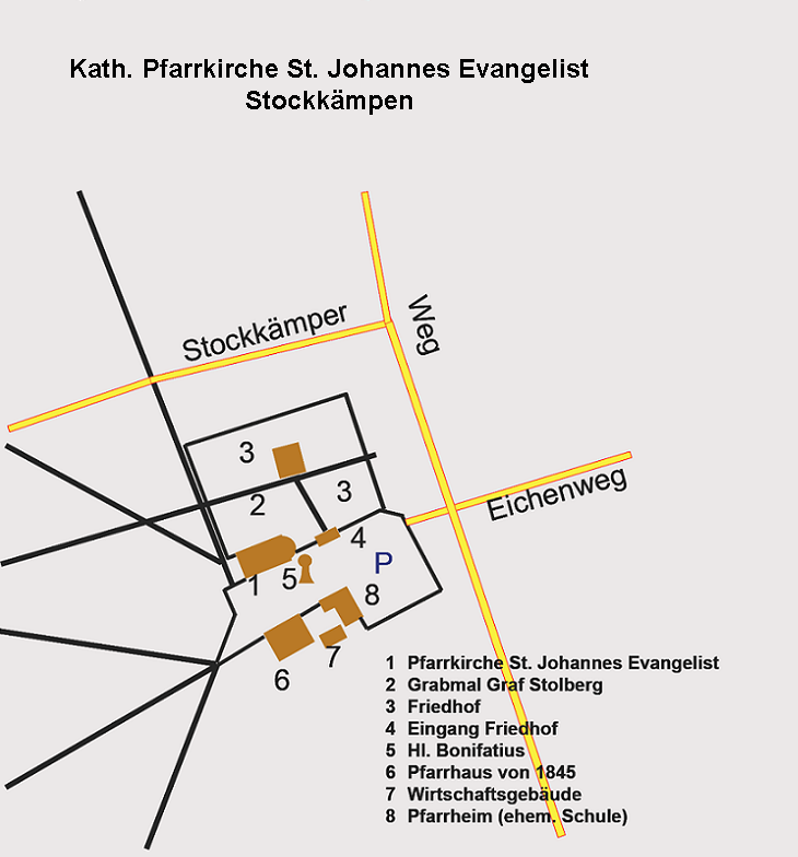 schematic map of Stockkämpen catholic church in Halle (Westfalen)